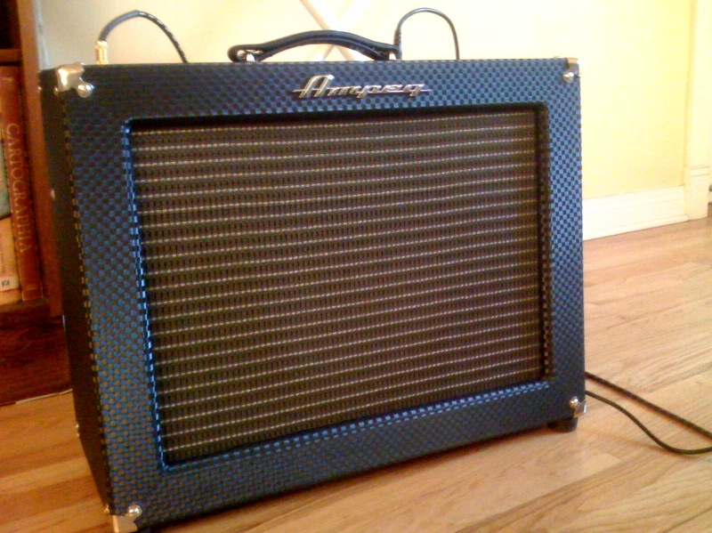 Ampeg R-12-R Reverberrocket guitar amplifier Diamond Blue series Bass Combos I got it for cheap because the reverb unit is busted, but it's still under warranty so my man Radar up at Deltronics is gonna hook a brother up! Tags: viaemail ampeg guitar amplifier reverberocket r12r References Hunter, Dave. "The Ampeg R-12-R Reverberocket". Vintage Guitar (January 2013): 58–60.